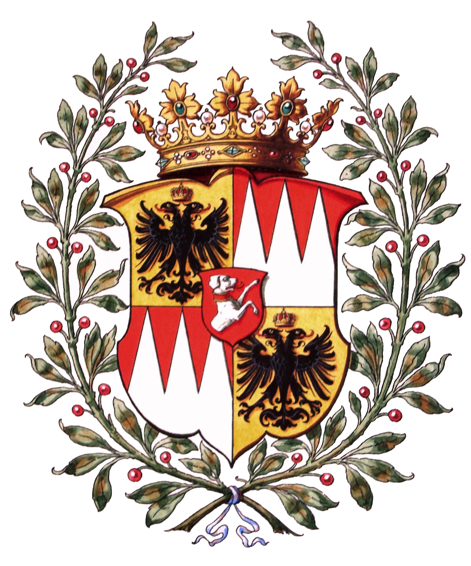 Coat of arms of Attems (Counts), correct version from 1630